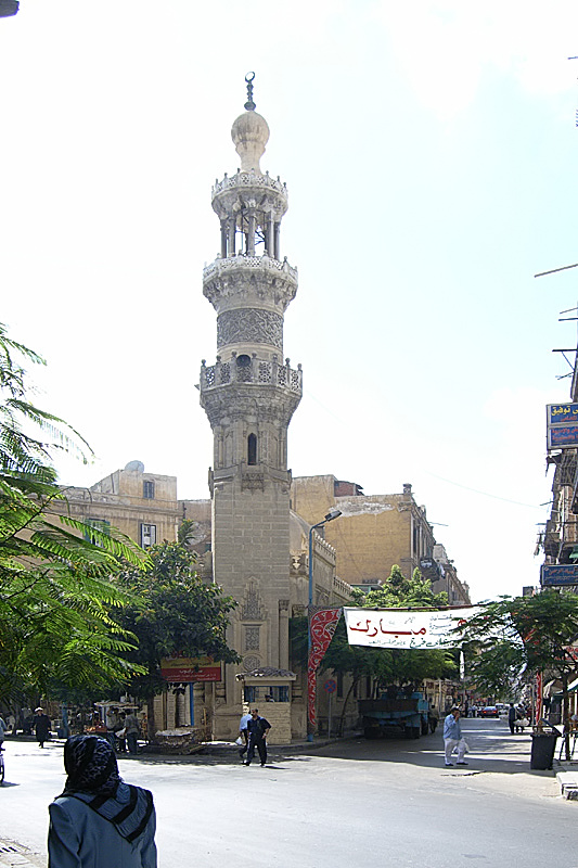 El-Attarin mosque, Alexandria, Egypt